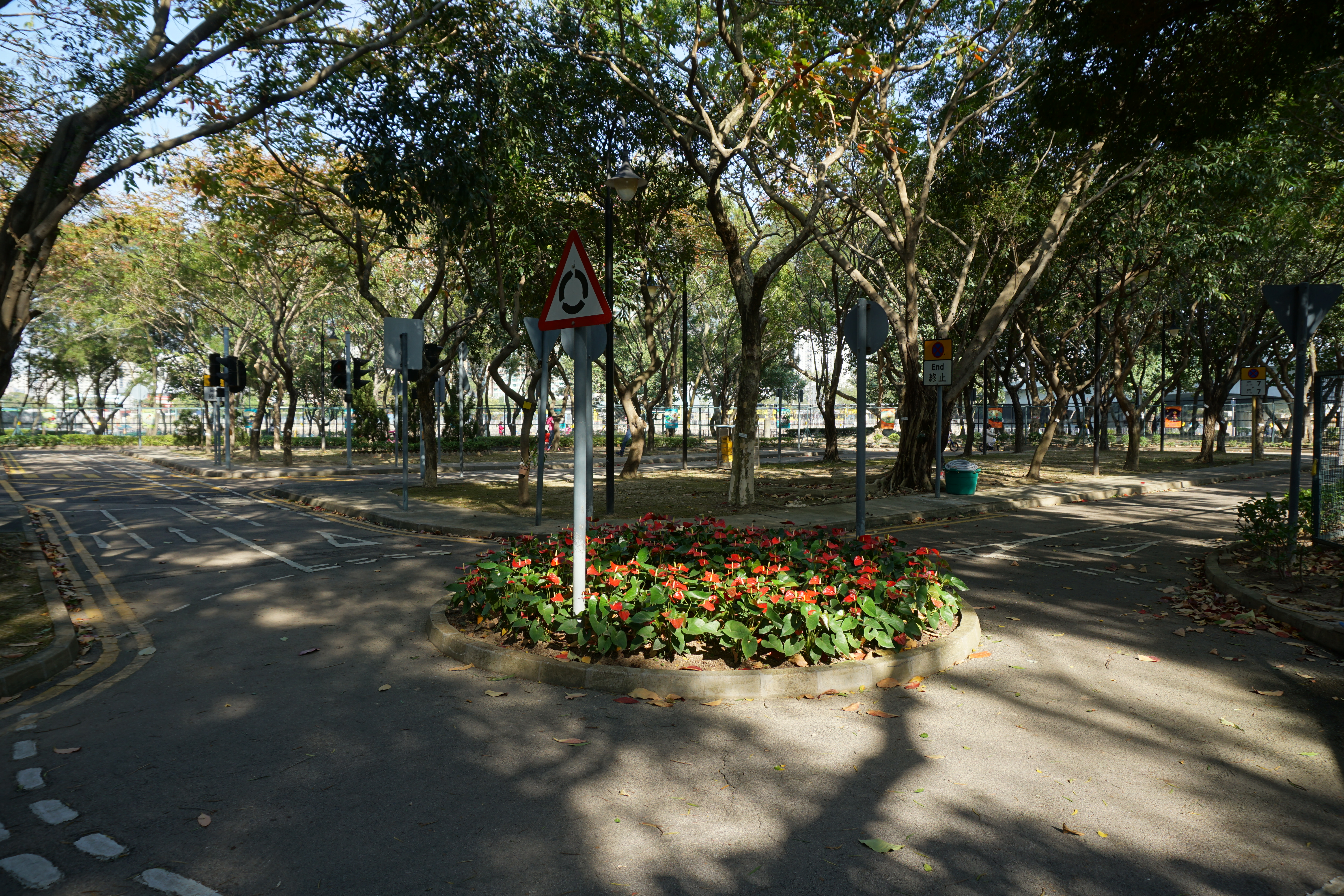 Road Safety Town in Tuen Mun, Hong Kong.